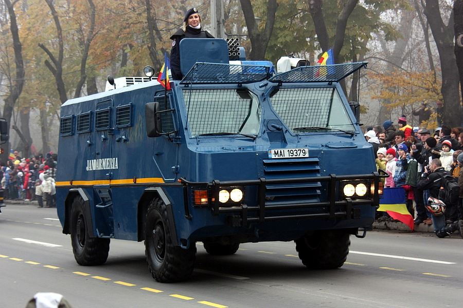 Romanian police truck on the Romanian National Day parade on December 1st, at the Triumph Arch in Bucharest.